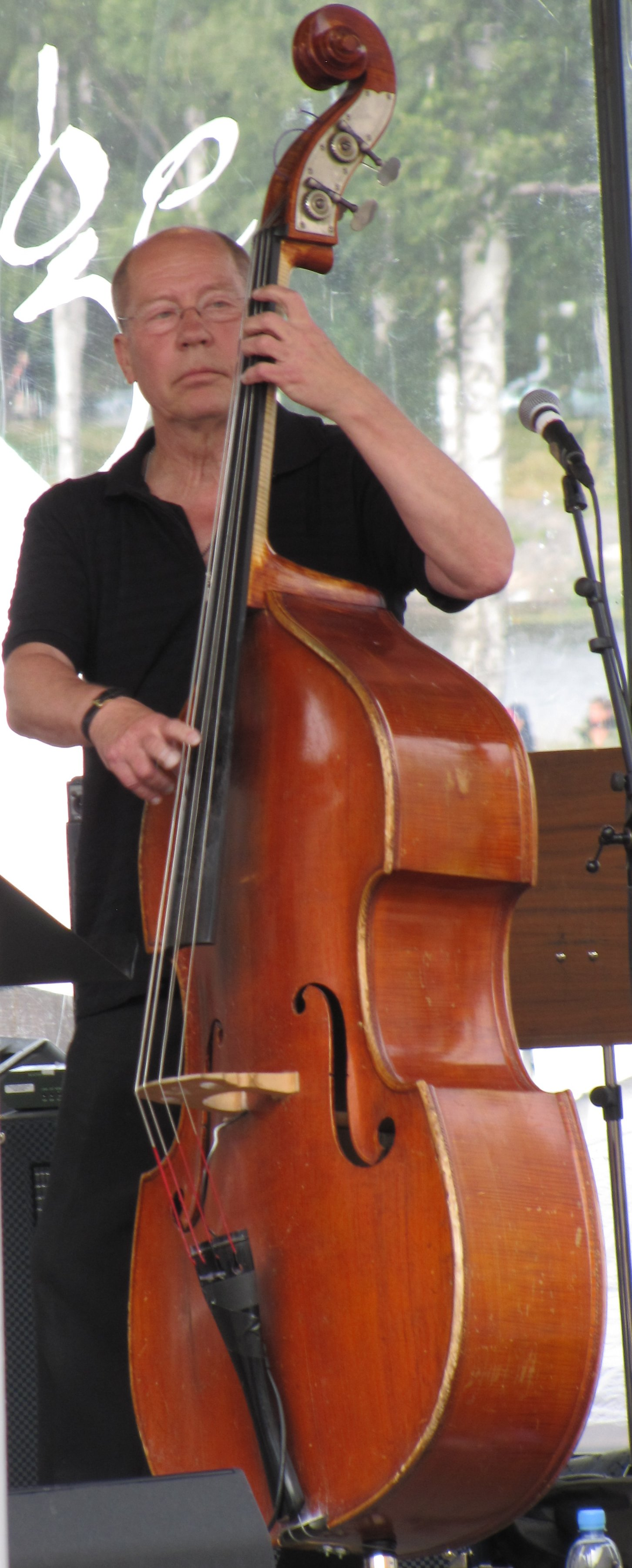 Finnish musician Jyrki Kangas.